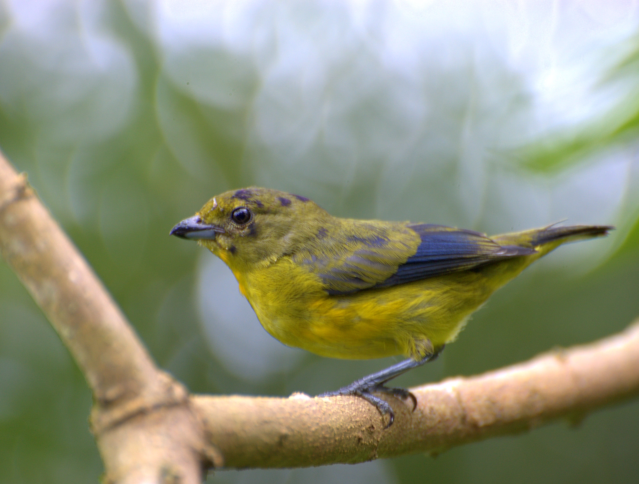 A Violaceous Euphonia (Euphonia violacea), imature male